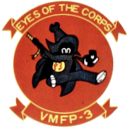 Insignia of the U.S. Marine Tactical Reconnaissance Squadron 3 (VMFP-3) "Eyes of the Corps", in 1979.